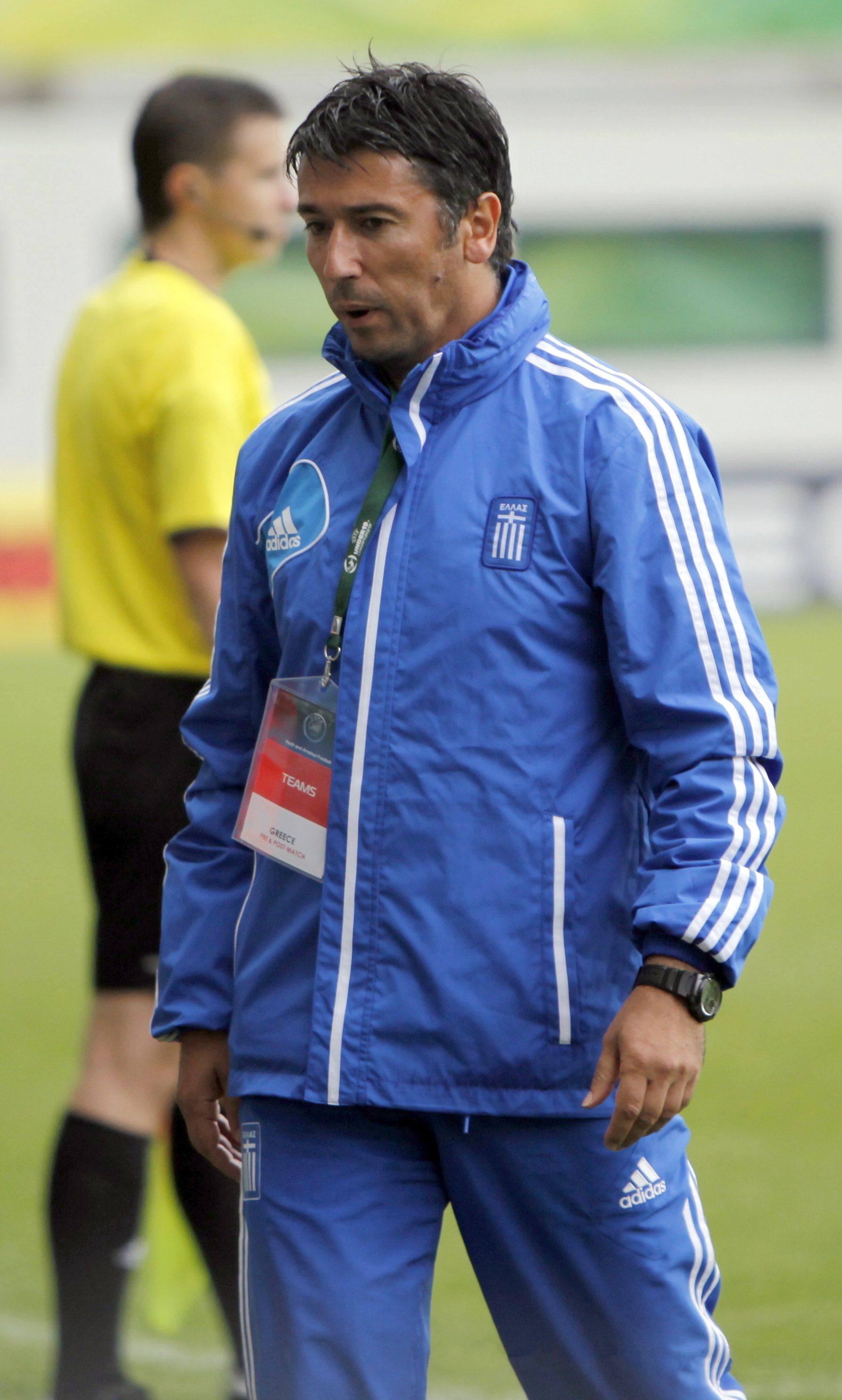 U-19 England vs Greece.